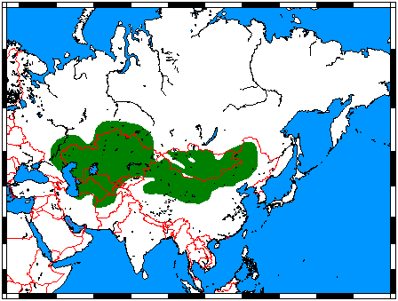 Corsac Fox (Vulpes corsac) range map, made by me with help of Map depending on the range map at IUCN red list. Includes national borders.